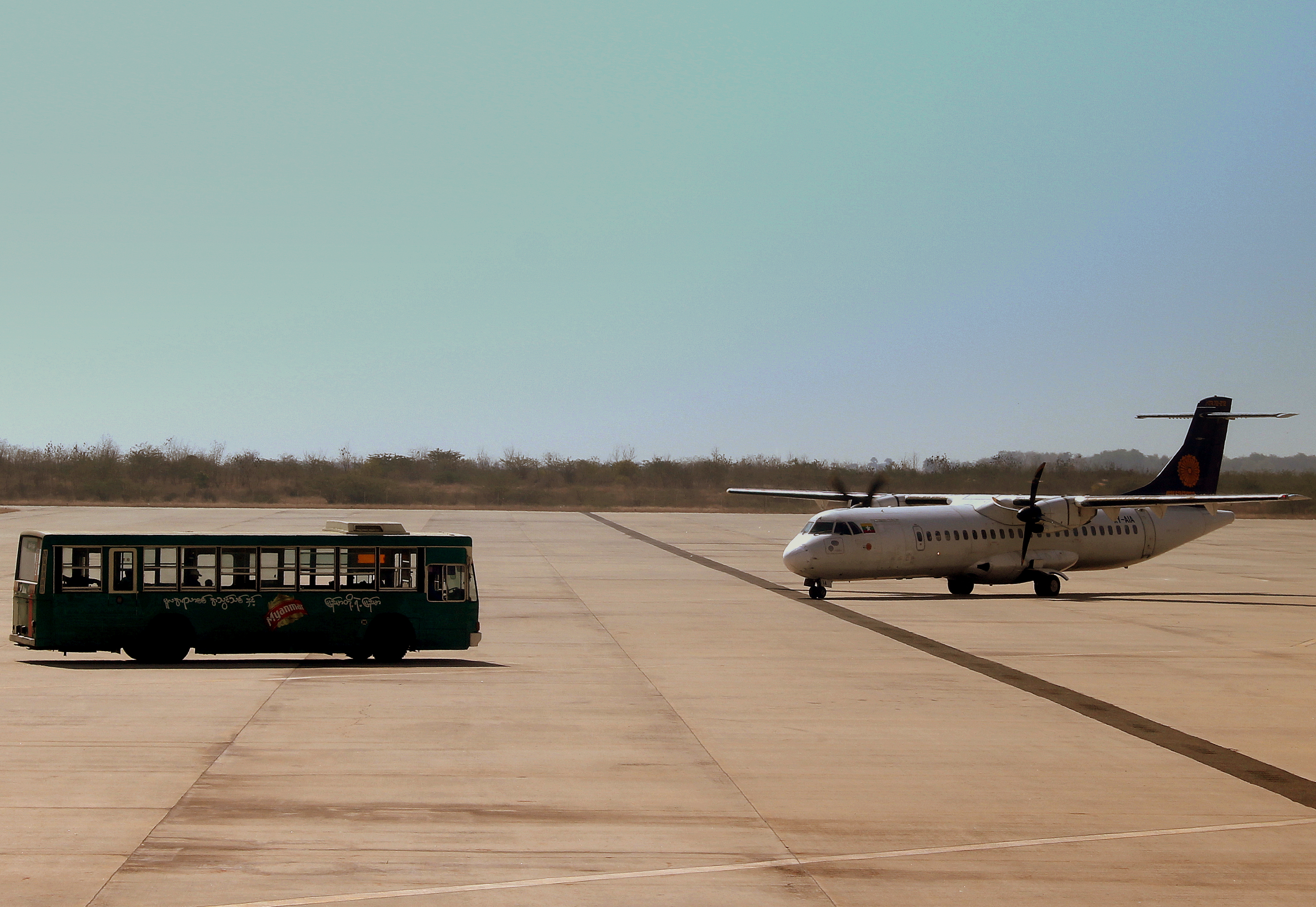 MYANMA AIRWAYS ATR72 AT MANDALAY INTERNATIONAL AIRPORT MYANMAR FEB 2013